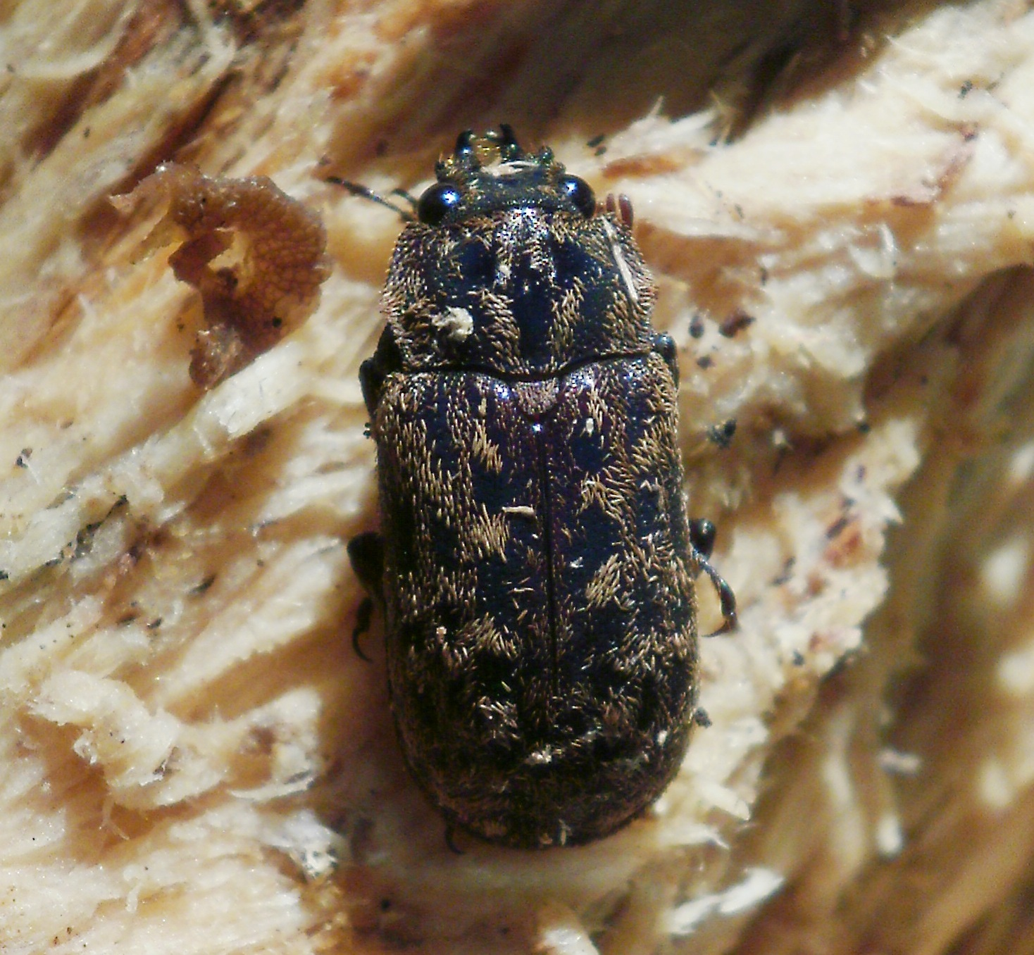 Mitophyllus parrianus, Parry's stag beetle, found in a rotting black beech tree log, in Wellington, New Zealand.